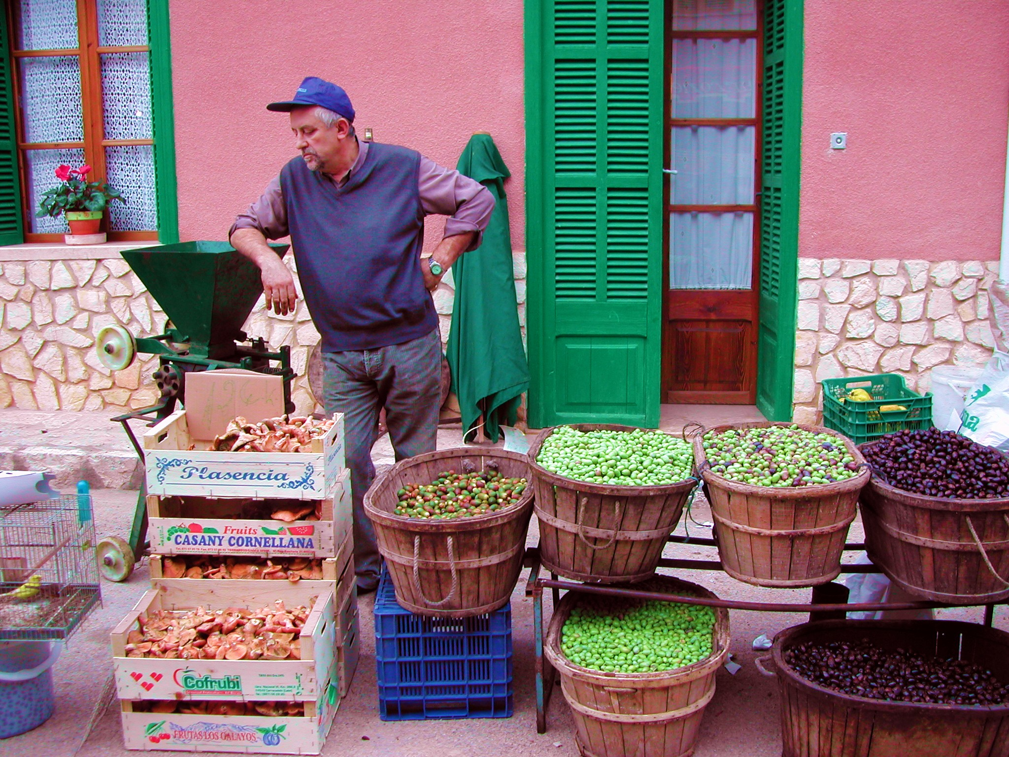 Olives and lactarius seller,Mallorca.